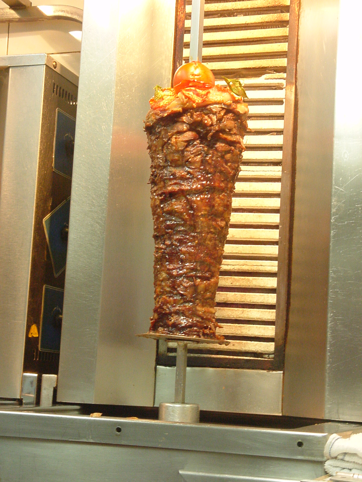 Vertically rotating roasted lamb, to be served in pieces. 中文（香港）: 垂直旋轉烤羊肉，供切片食用。